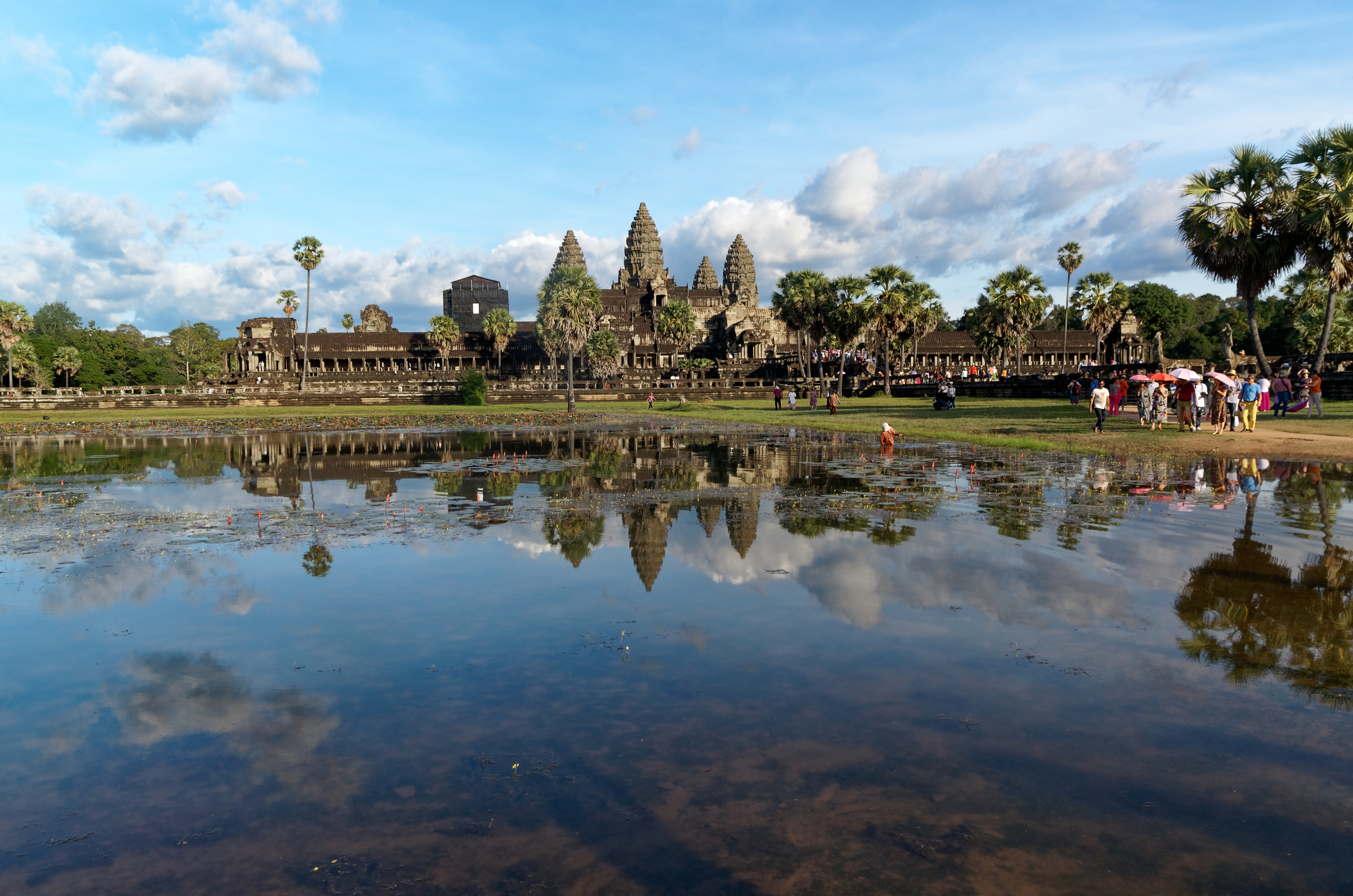 View of the central structure of Angkor Wat